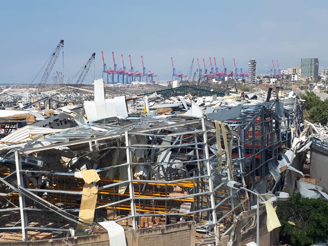 Aftermath of the 2020 Beirut explosions august